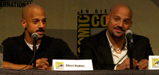 The Hughes brothers, Albert (left) and Allen (right) promoting their 2010 film The Book of Eli at San Diego Comic-Con. The image is a composite of two separate images.